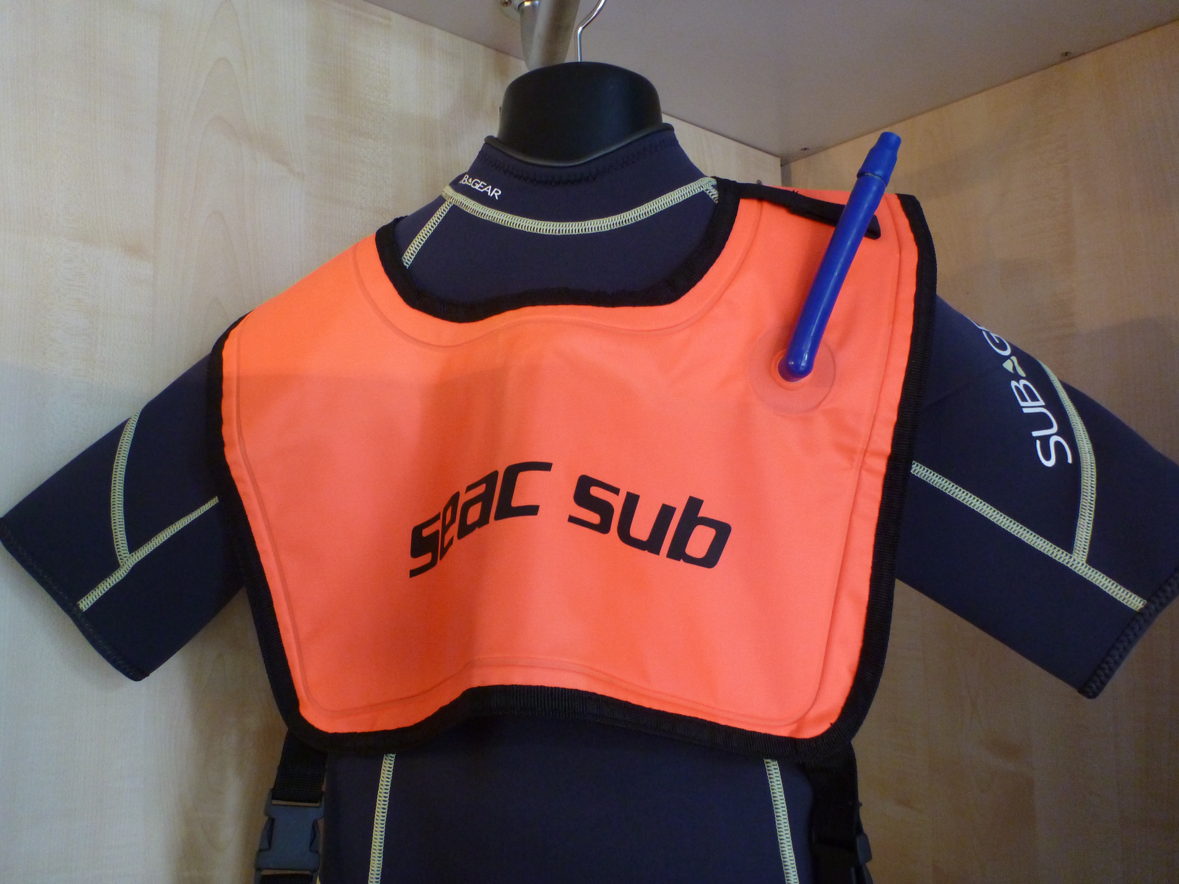 Snorkel vest for more security in open water with currents and waves